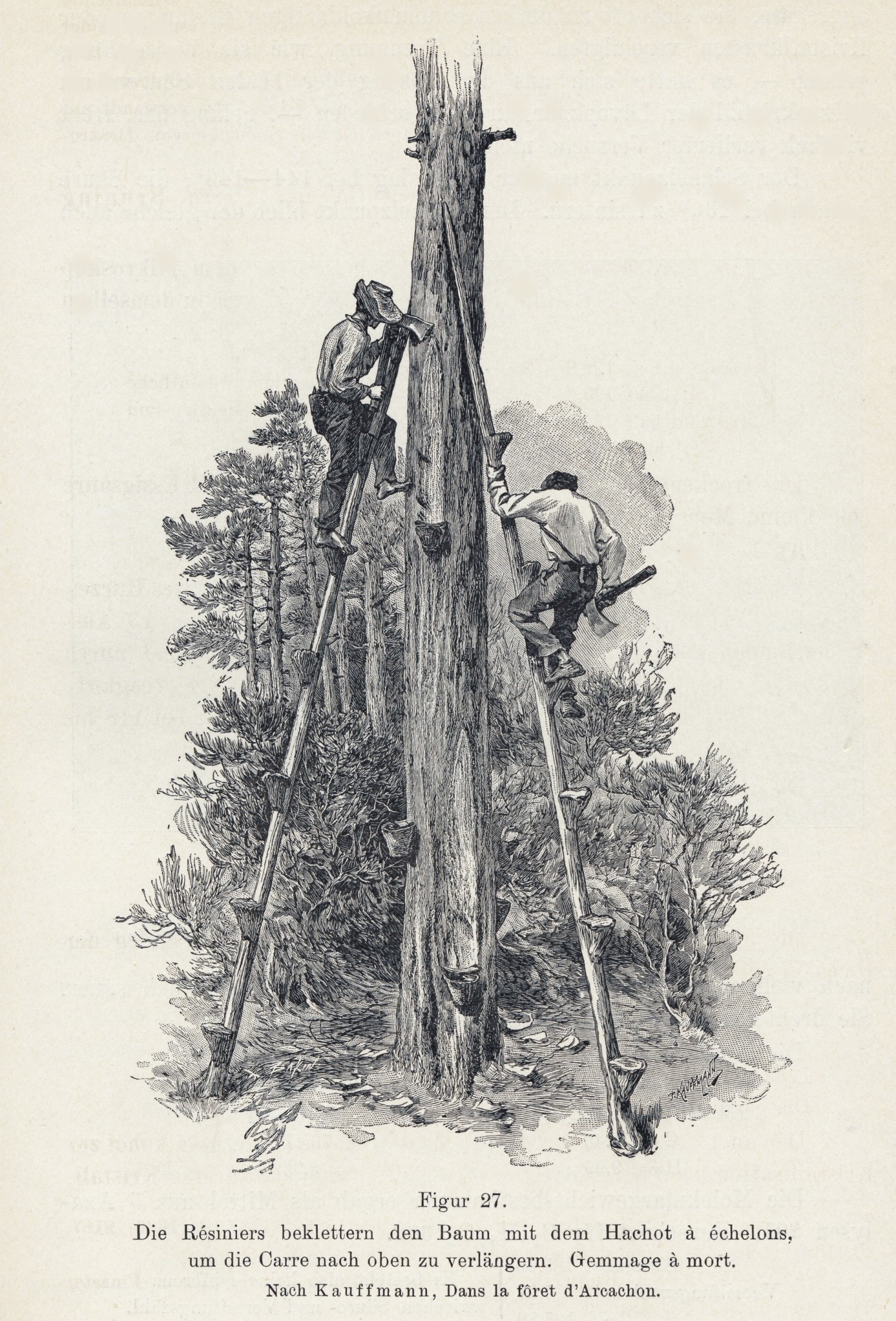 Resin extraction of French